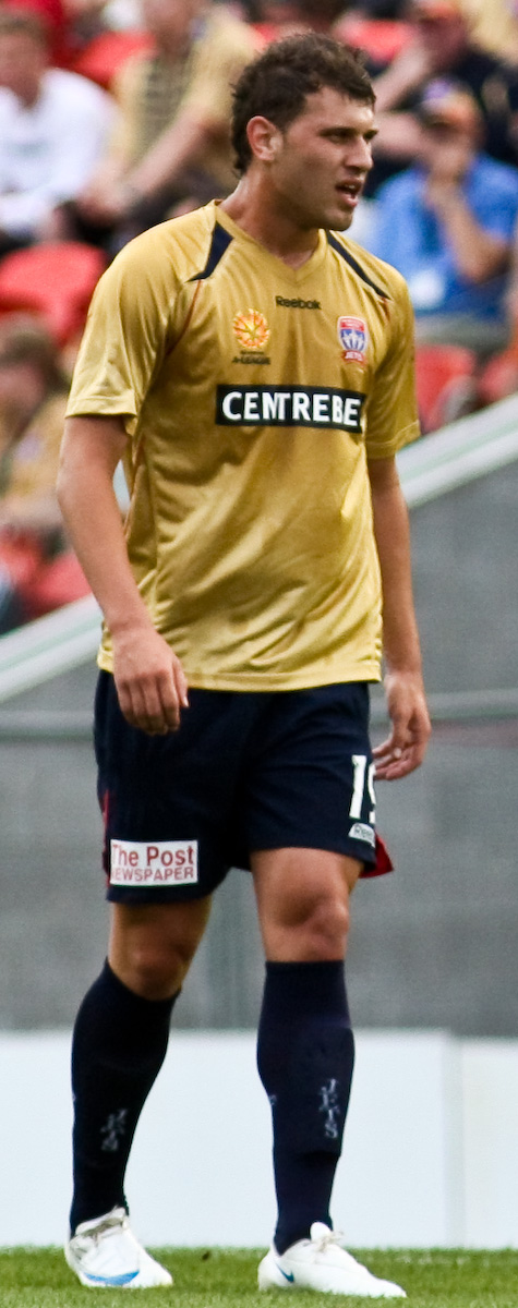 Jason Naidovski playing against Sydney FC